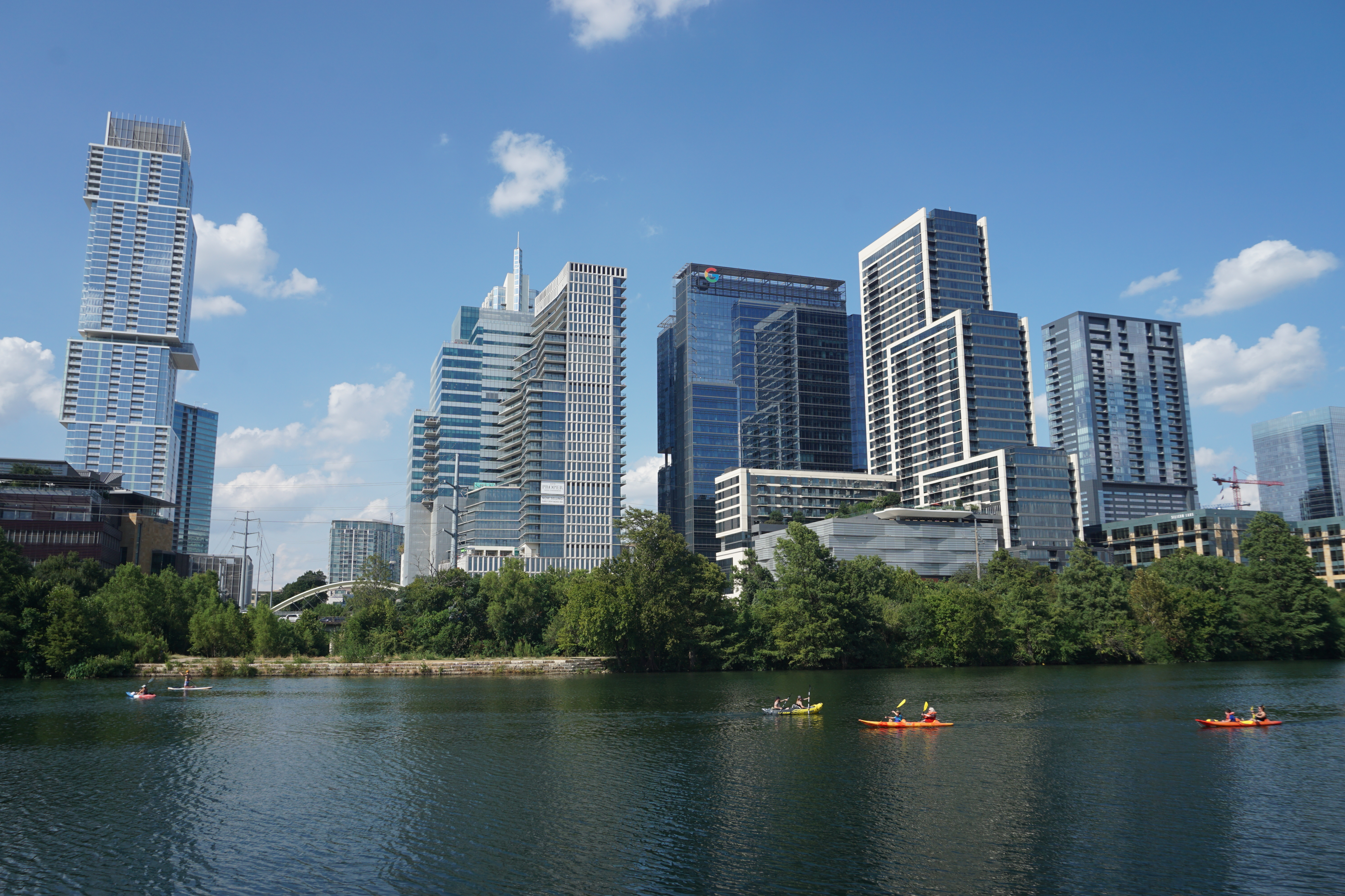 The skyline and Lady Bird Lake in Austin, Texas (United States).